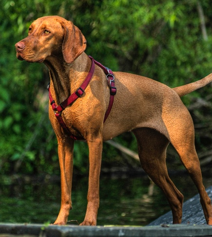 This image is a cropped version of the original.